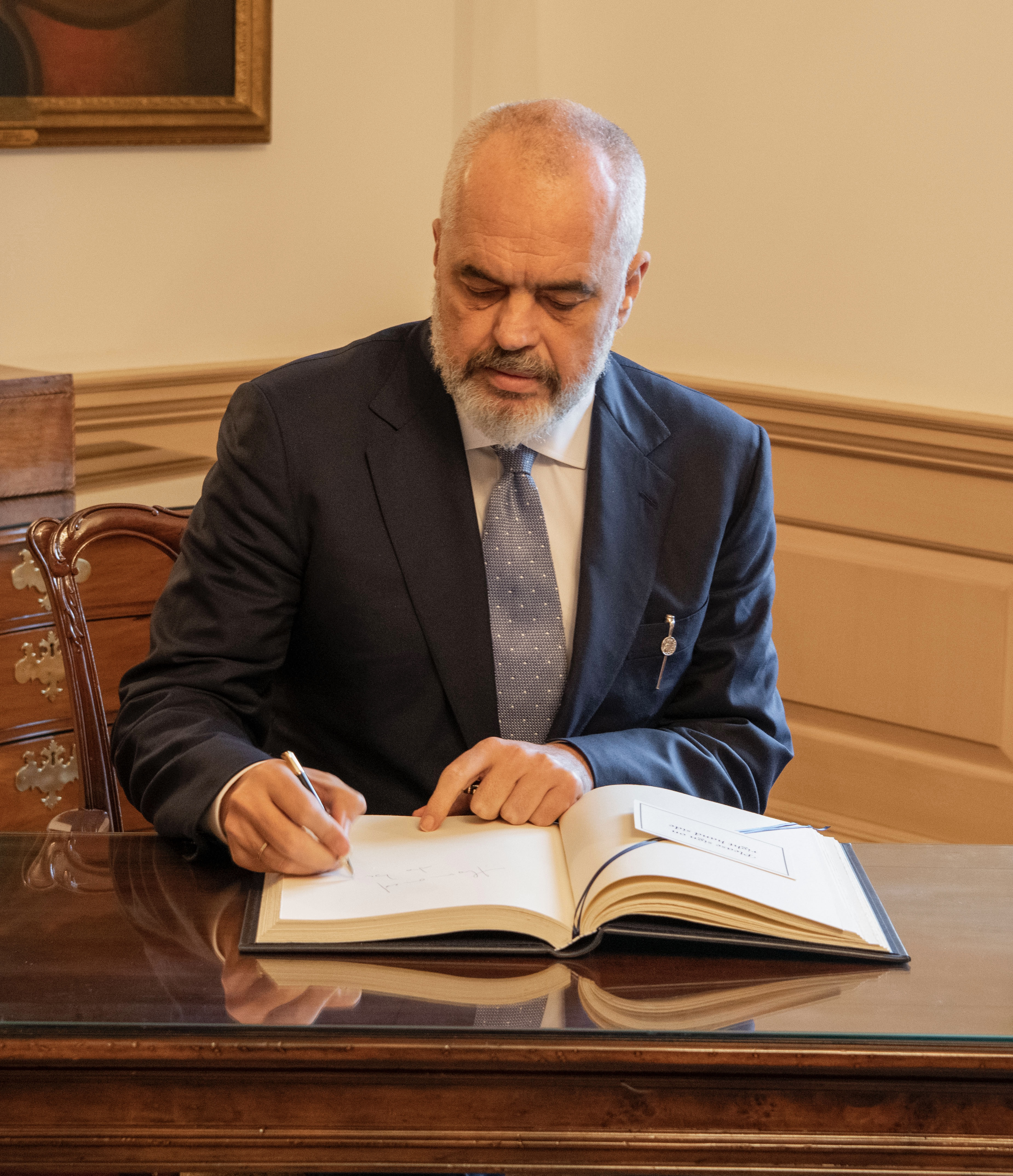 Albanian Prime Minister Edi Rama signs the guest book, at the Department of State in Washington, D.C., on February 5, 2020. [State Department Photo by Freddie Everett/Public Domain]